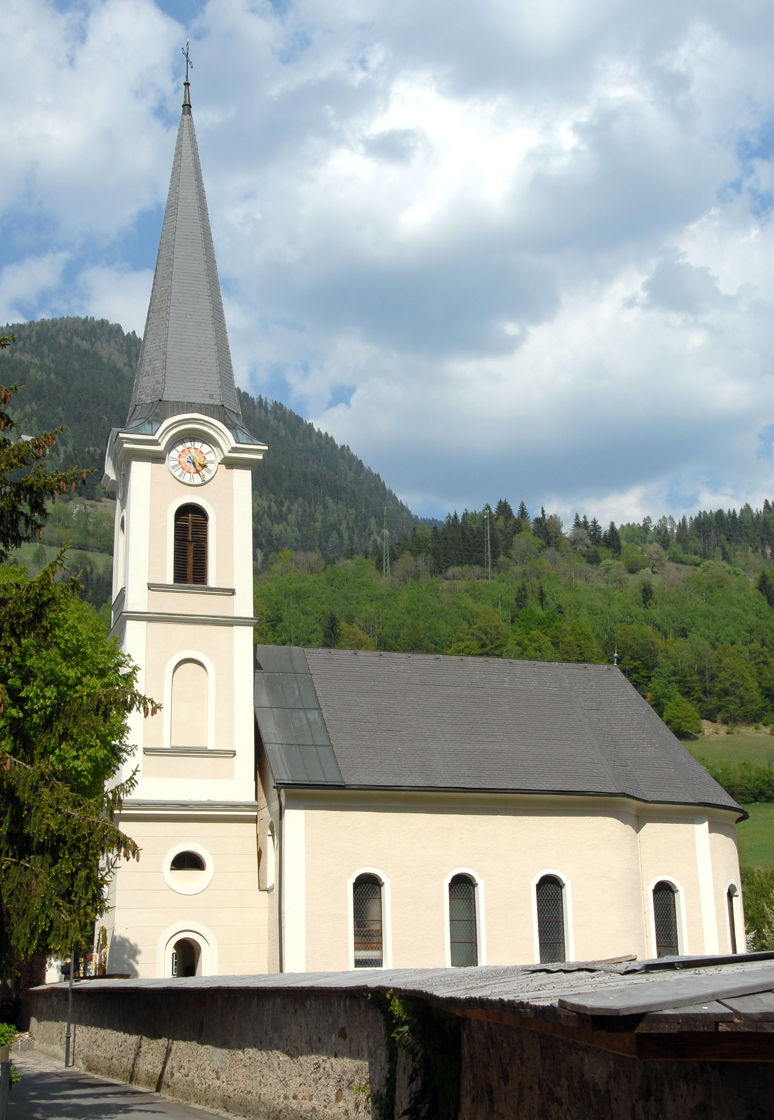 Evangelic church at Feld am See, district Villach-Land, Carinthia, Austria